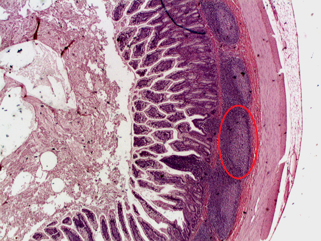 A picture of Peyer's Patches, which are organized lymphoid nodules commonly found in the small intestines. This histology section was taken from the ileum (NOT jejunum), the final section of the small intestines.